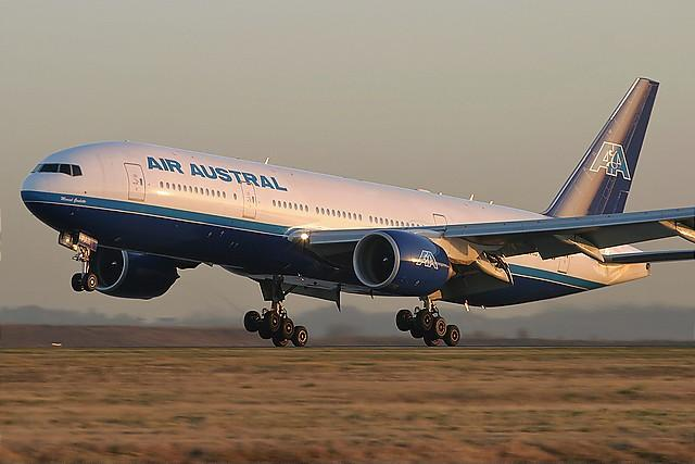 Description: Air Austral Boeing 777 Photographer/illustrator: Philippe Noret - AirTeamimages Uploader: Eyone Note: authorisation of Philippe Noret sended to - Thanks to him